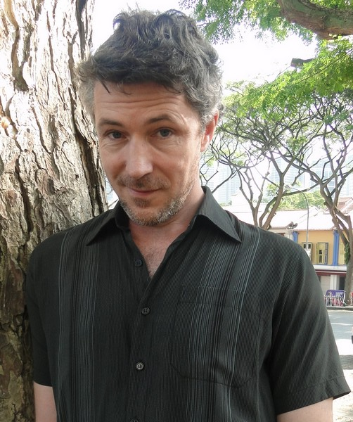 Aidan Gillen on Duxton Road, Singapore in Feb, 2012 when shooting "Mister John".